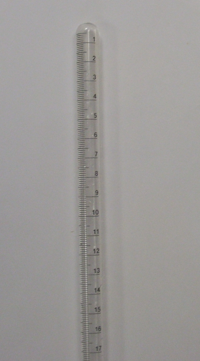 The top of a Eudiometer